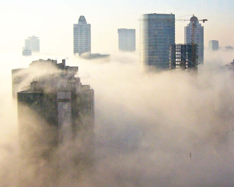 Fog rolls across the office buildings in the Levent area of Istanbul, Turkey. This is basically the same view (without the fog) as